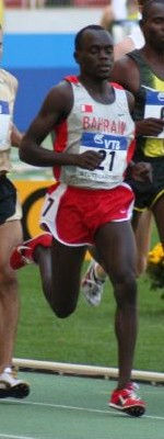 World athletics final Stuttgart 2007 1500m Belal Mansoor Ali